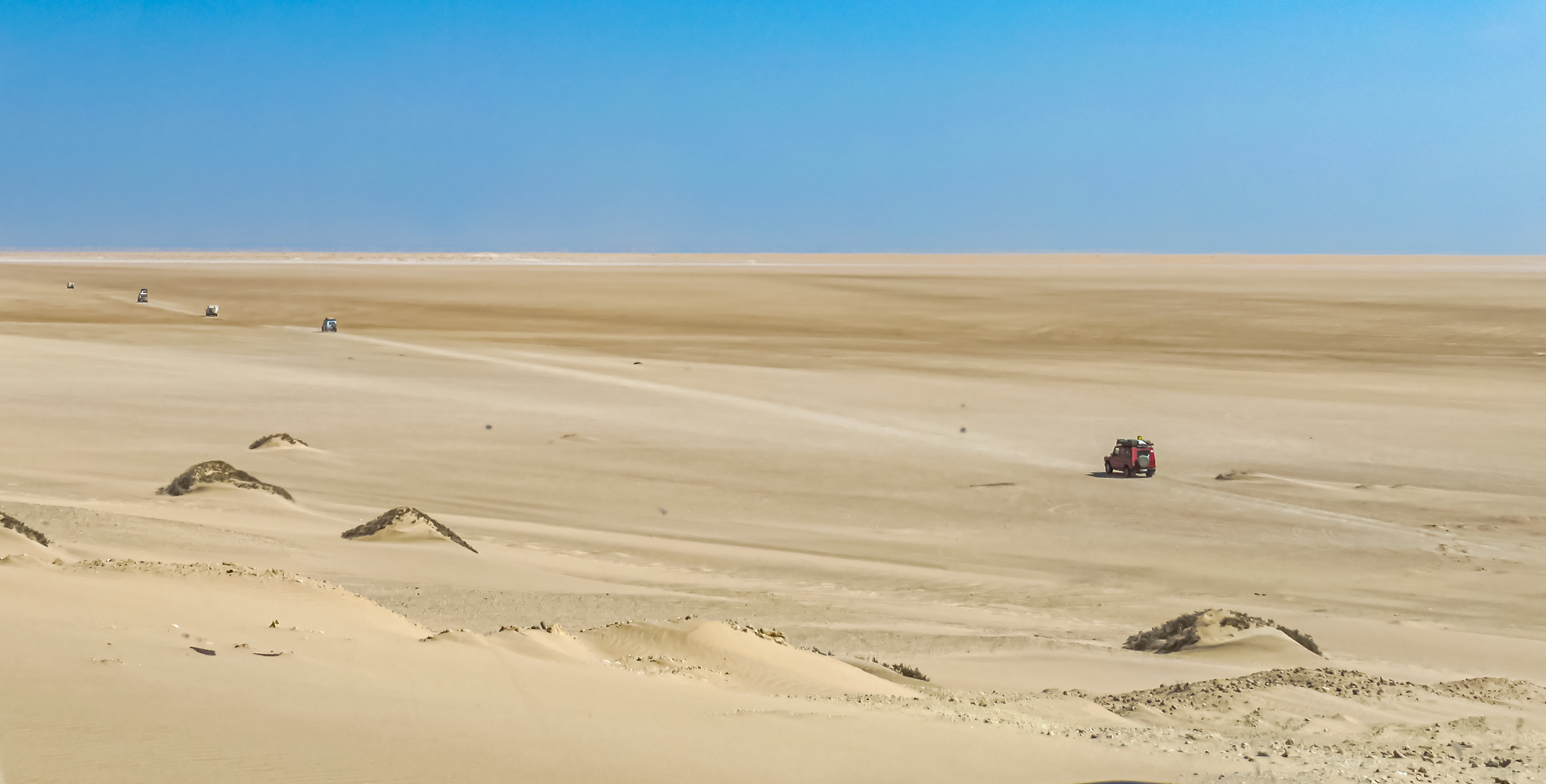 Bakkies the national park in Angola This is an image with the theme "Africa on the Move or Transport" from: Angola